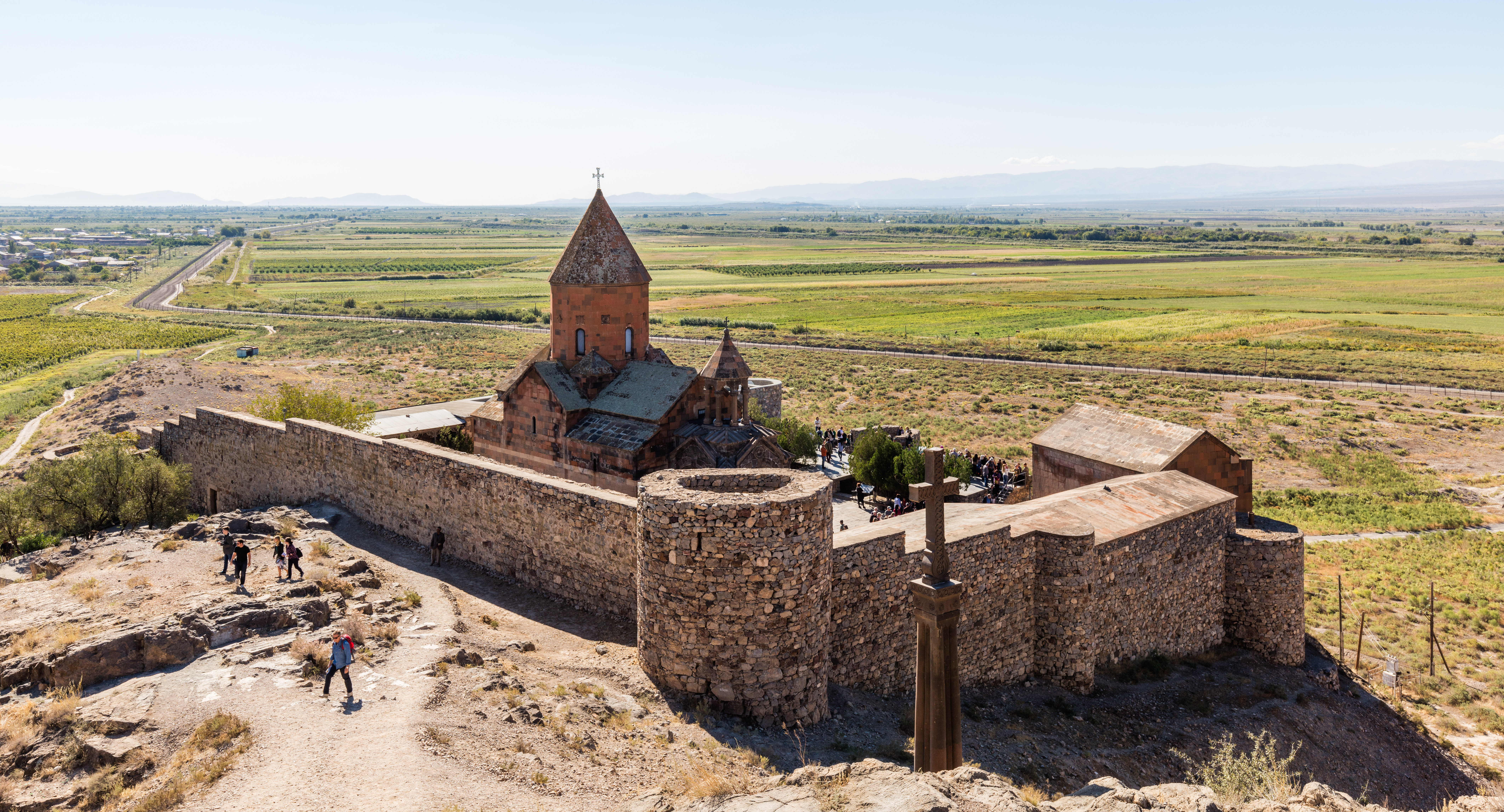 Khor Virap Monastery, Armenia